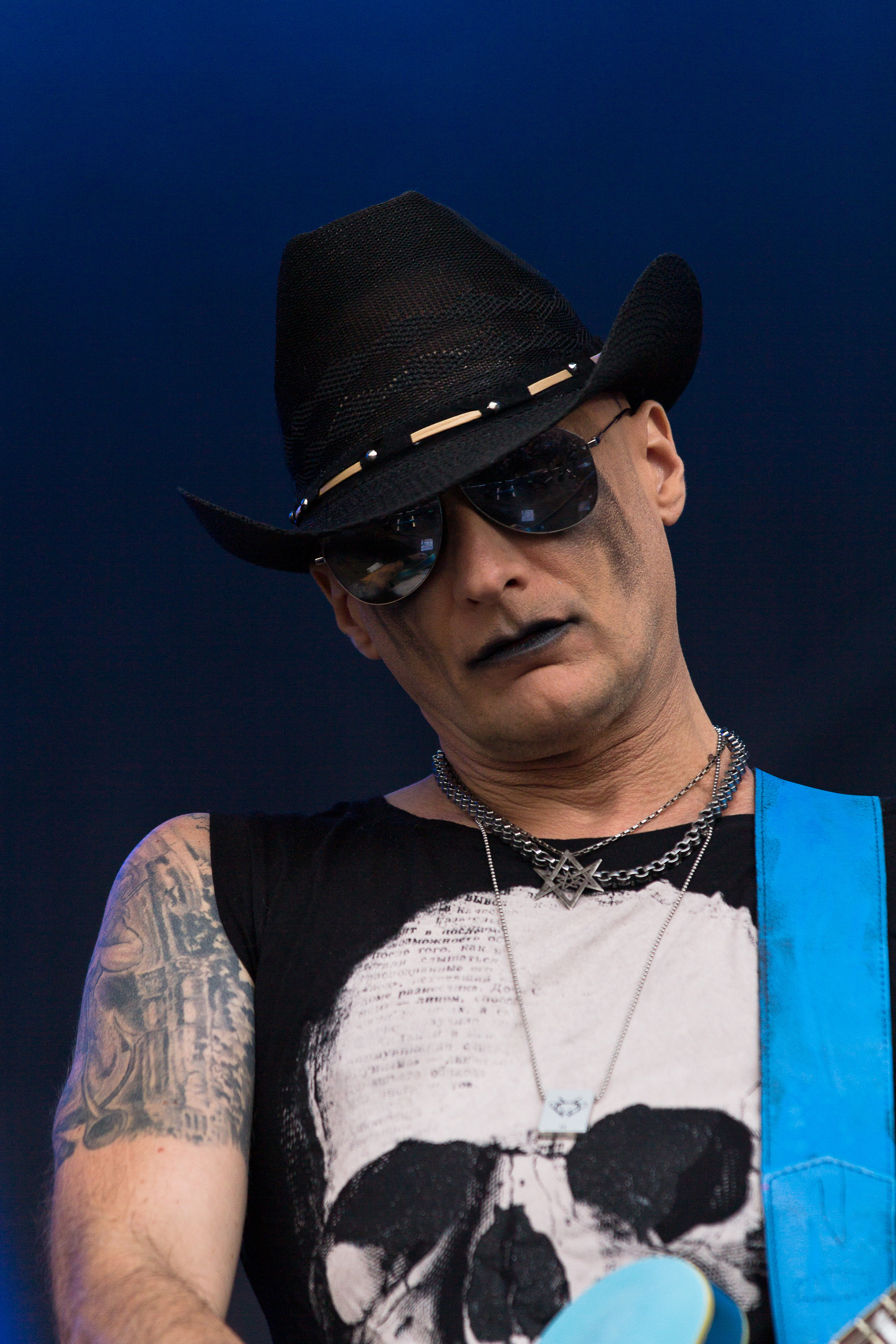 The Swedish gothic metal band Tiamat at the Rockharz Open Air 2014 in Ballenstedt/Germany